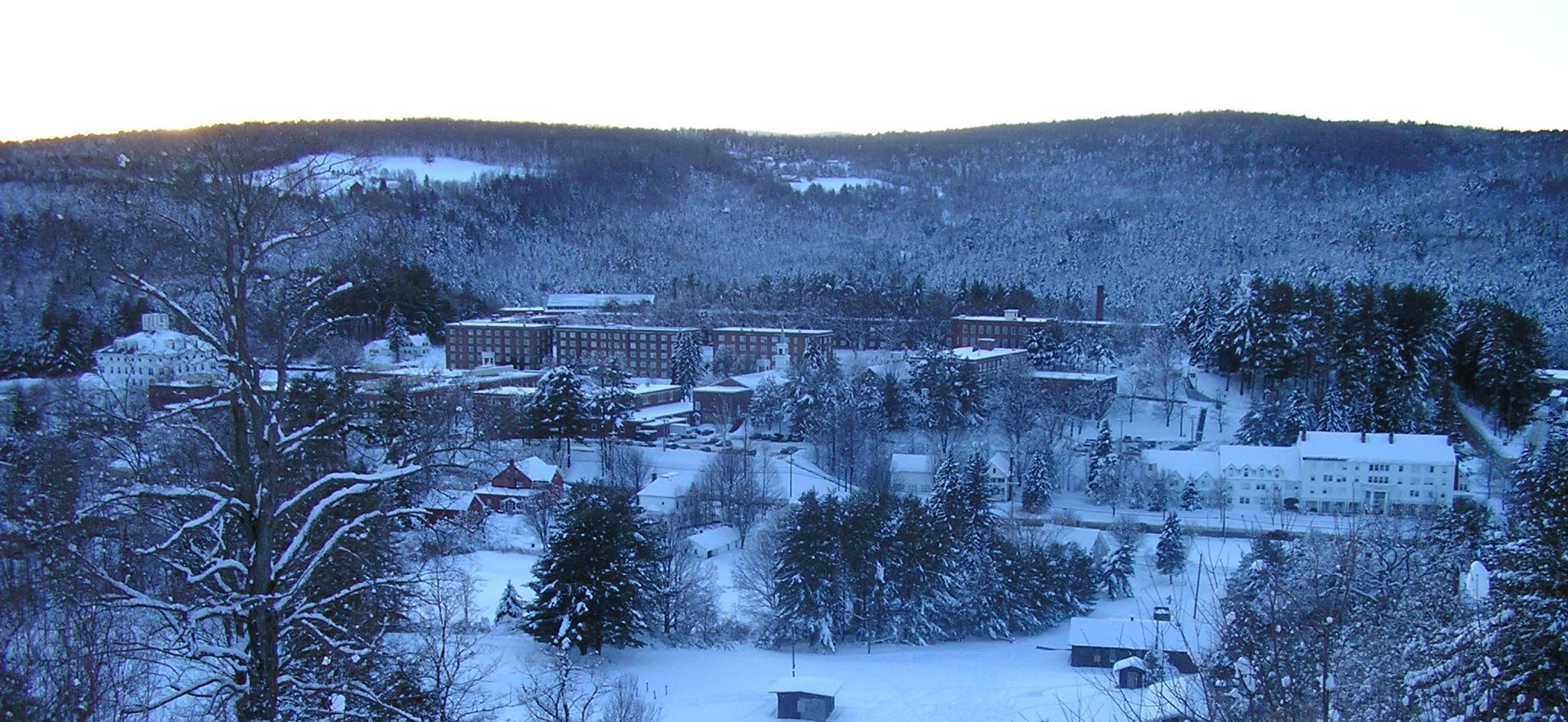 Norwich University in Northfield, Vermont as seen from the "Ski Hill" during winter.